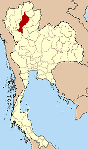 Map of Thailand highlighting Lampang province